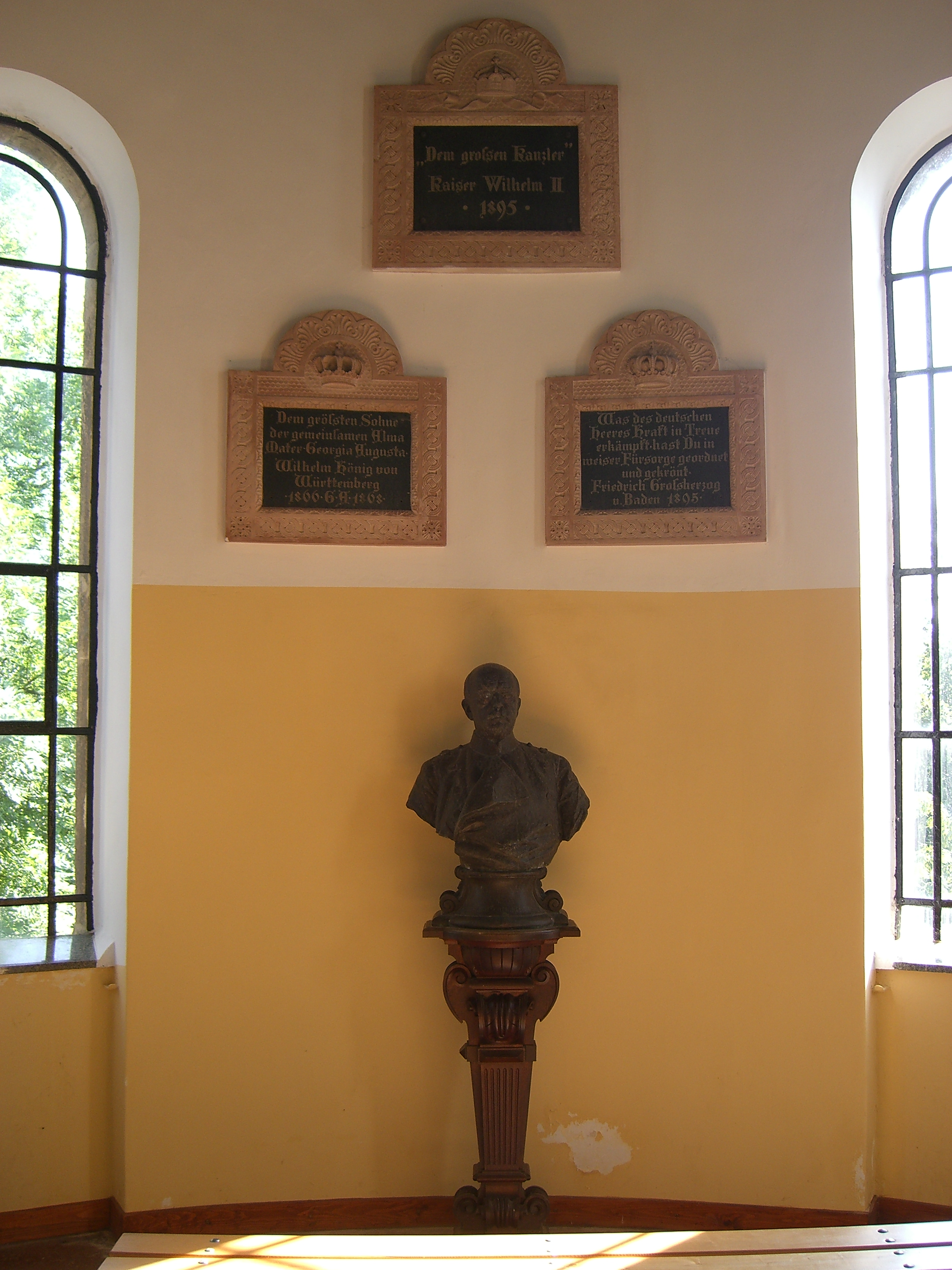 Memorial room in the 'Bismarck' tower close to Göttingen